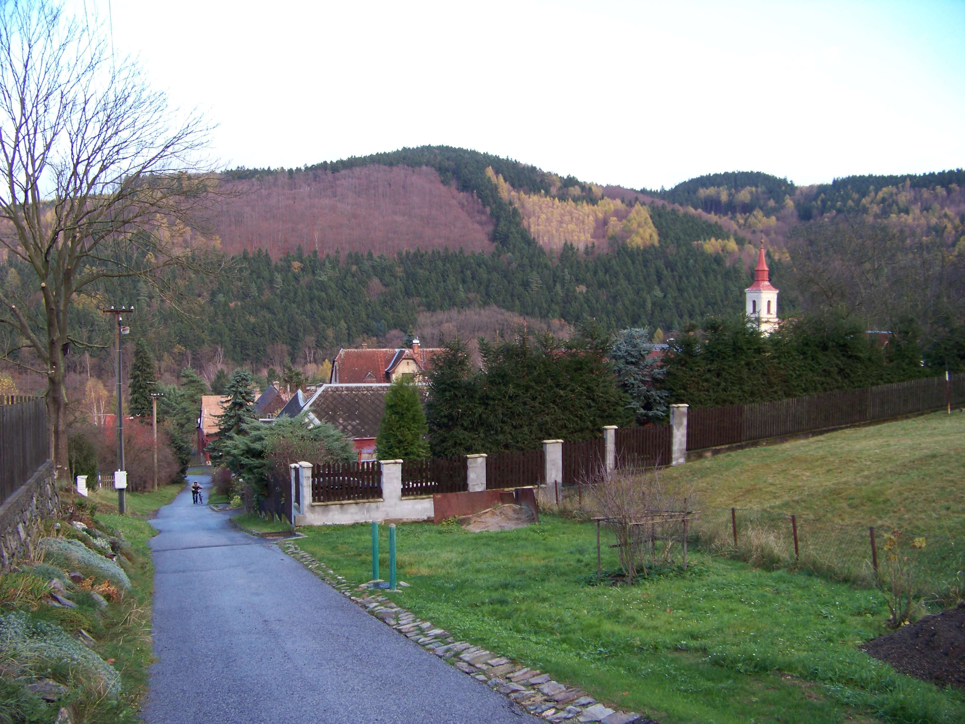 Chrastava-Andělská Hora, Liberec District, Liberec Region, Czech Republic. A view of Ovčí hora. - Google Maps - Google Earth